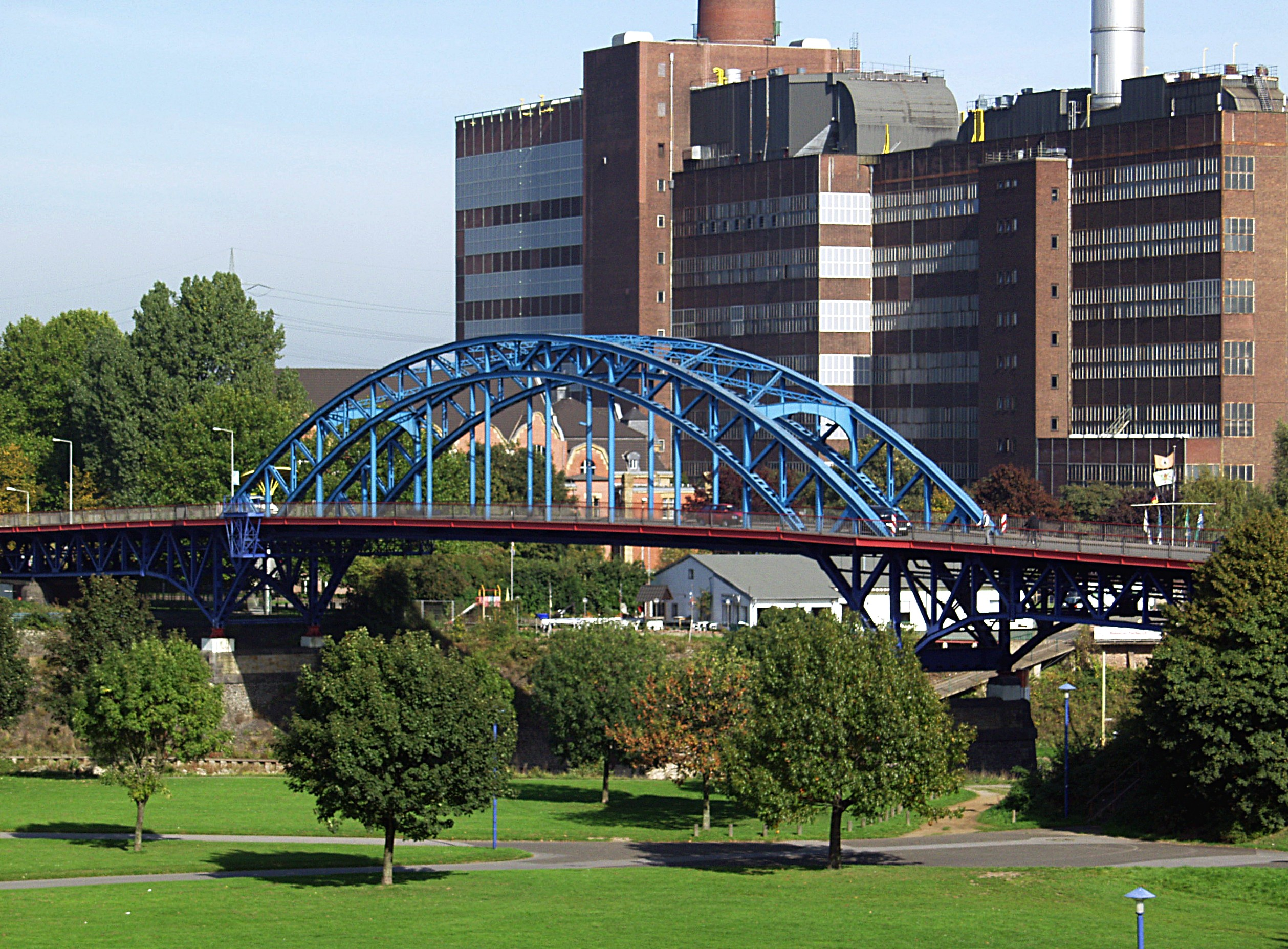 Bridge over the railway-harbor at Duisburg-Ruhrort, Germany